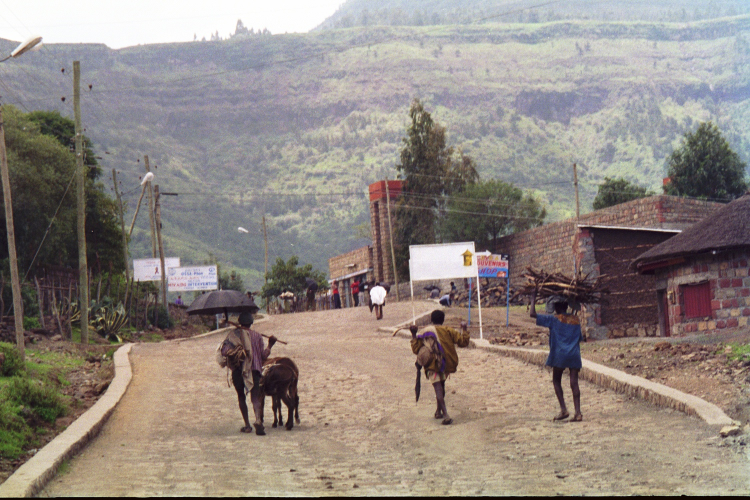 Lake Kivu, UN Refugee Camp, Restaurant, Gacaca